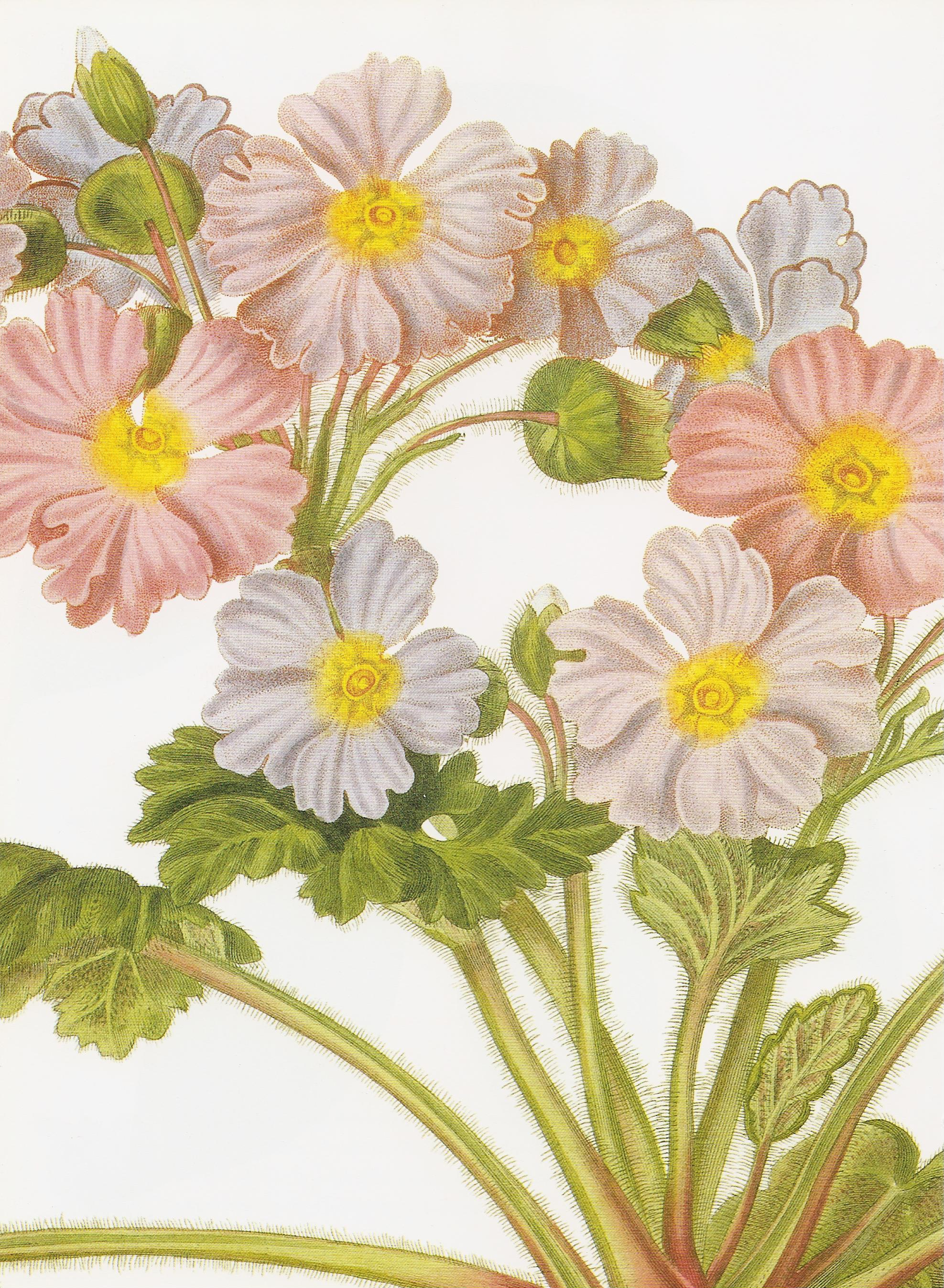 Primula sinensis, a hand-coloured engraving from John Lindley's Collectanea botanica (1821) of a plant both named and drawn by Lindley